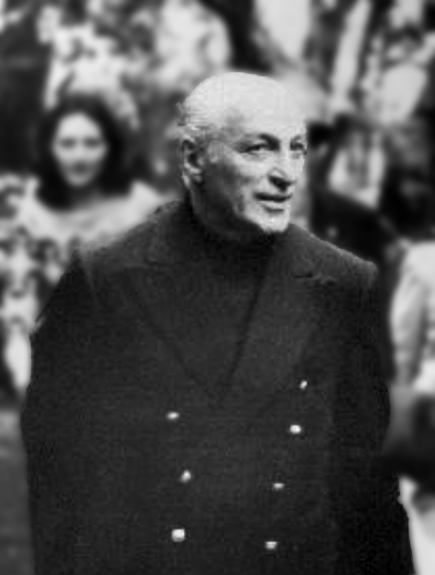 Argentine minister and politician José López Rega